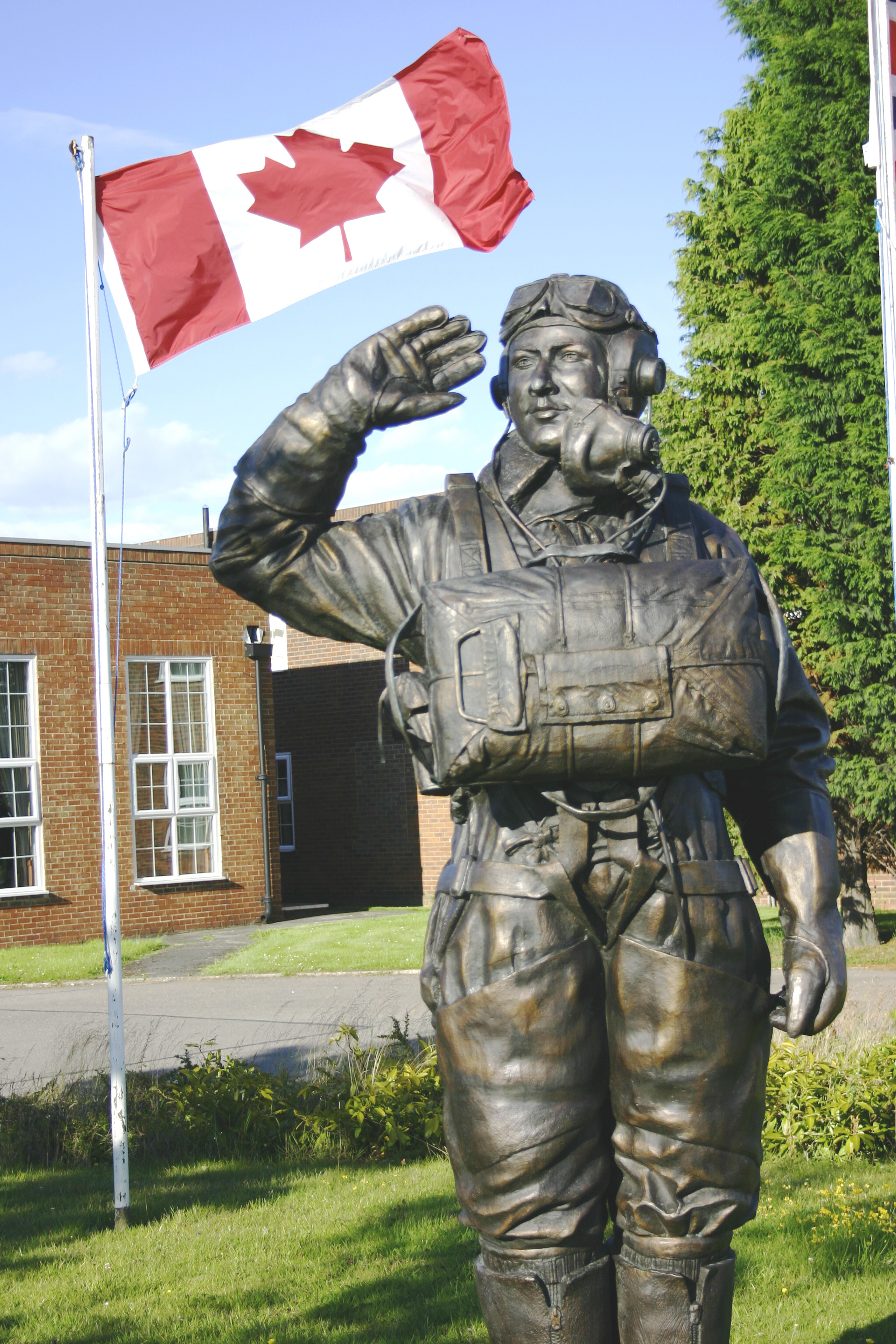 This statue is sited outside the former RAF Middleton St George Officers Mess.